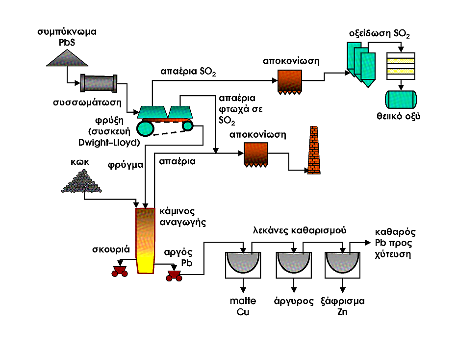 Lead blast furnace production